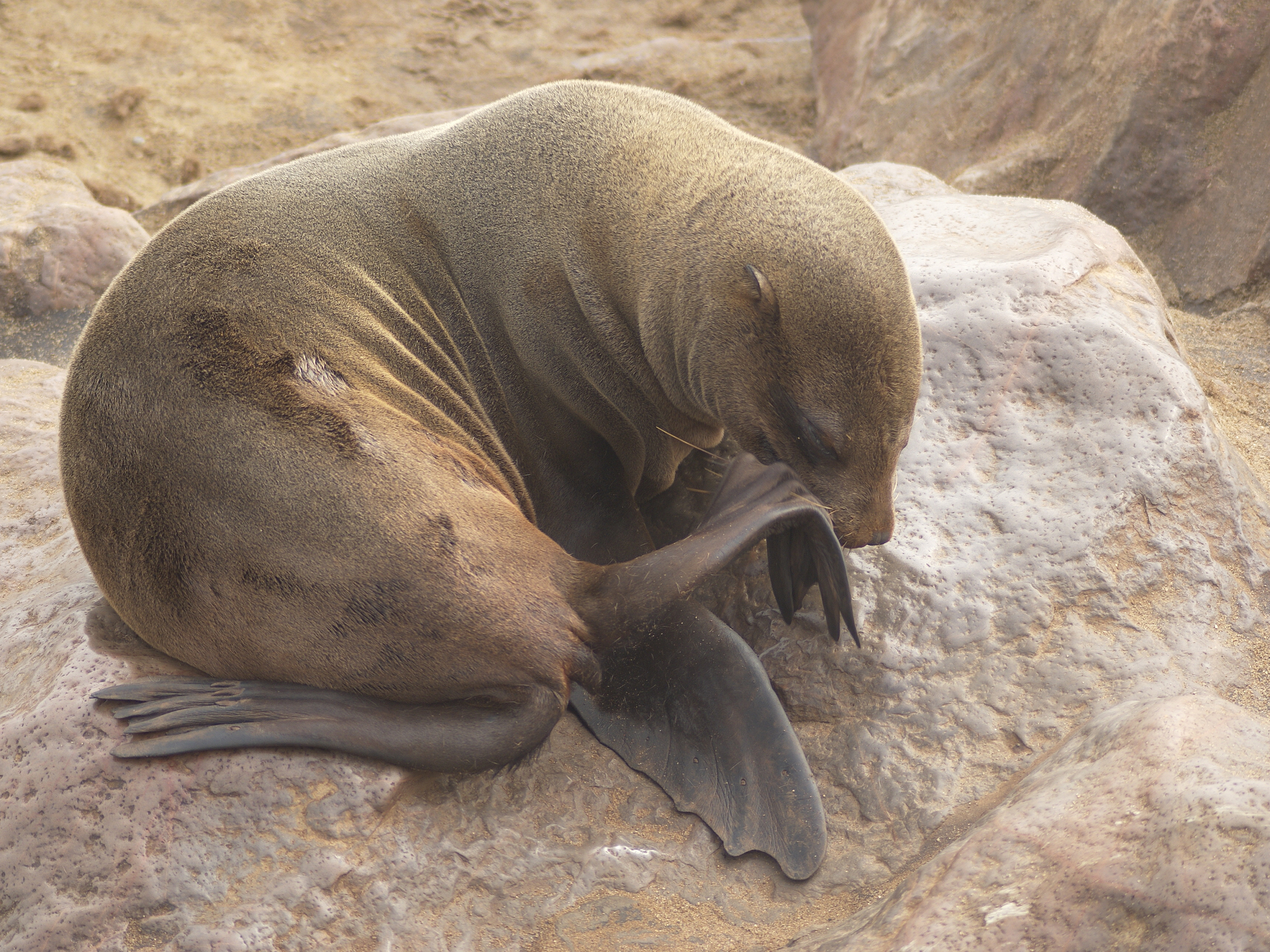 A Cape Fur Seal at Cape Cross on the Skeleton Coast, Namibia